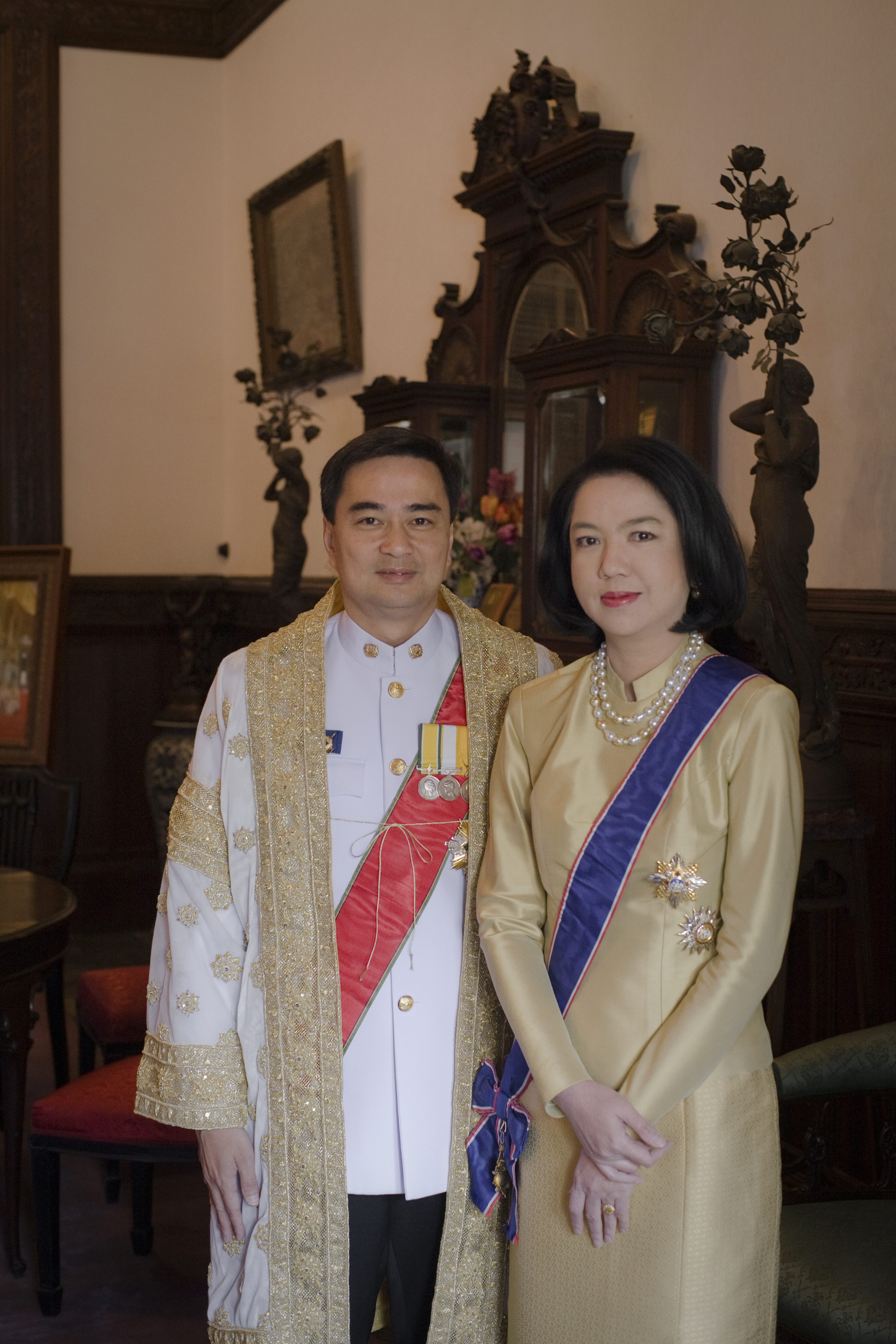 Abhisit Vejjajiva, wearing the prime minister attire, a full traditional attire of chief minister in ancient times which is now still in ceremonial use, including the golden brocaded Senamat gown (ครุยเสนามาตย์), and wife, Dr Pimpen, wearing an applied Thai dress